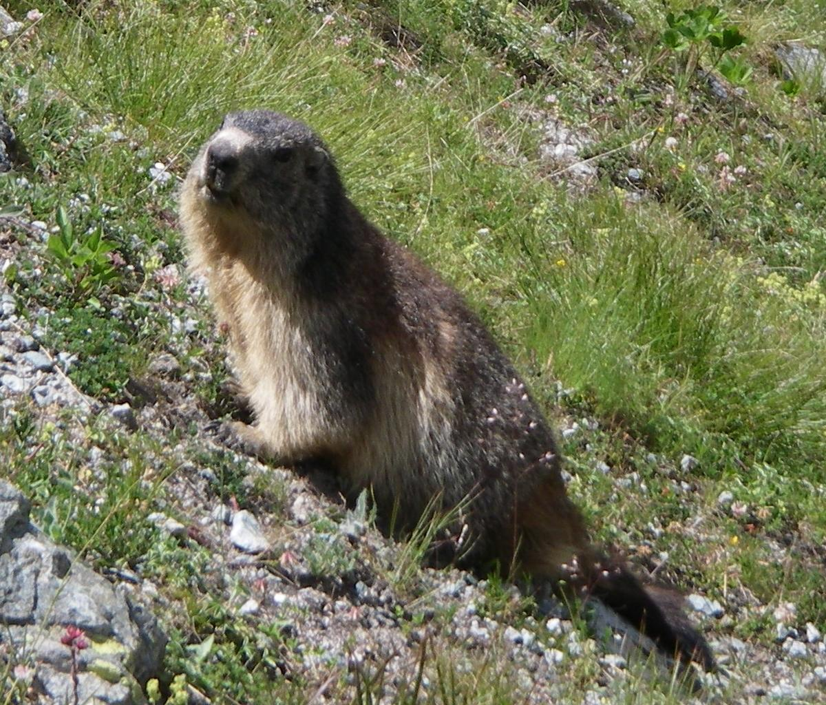 Taken in the Massif des Écrins national park in the southern French Alps.